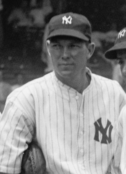 Bill Dickey of the New York Yankees, cropped from a posed picture of 1937 Major League Baseball All-Stars in Washington, DC.